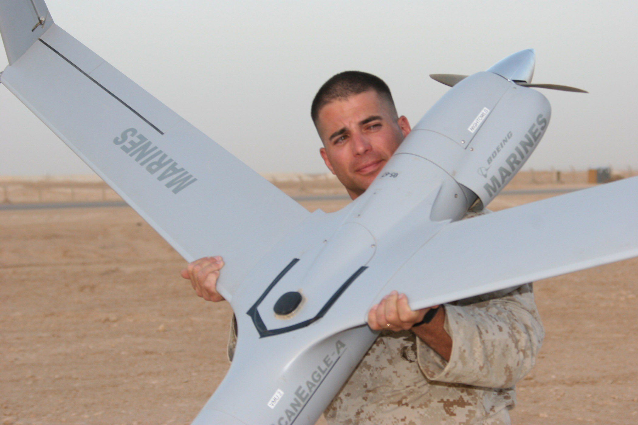 AL ASAD, Iraq. Staff Sgt. Jose Gonzalez, the staff noncommissioned officer-in-charge of the ScanEagle detachment with Marine Unmanned Aerial Vehicle Squadron 2 transports one of the ScanEagle unmanned aerial vehicles after landing here July 14.